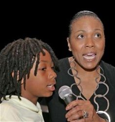 Dee Dee Bridgewater singing French and English songs with an ABEI student.